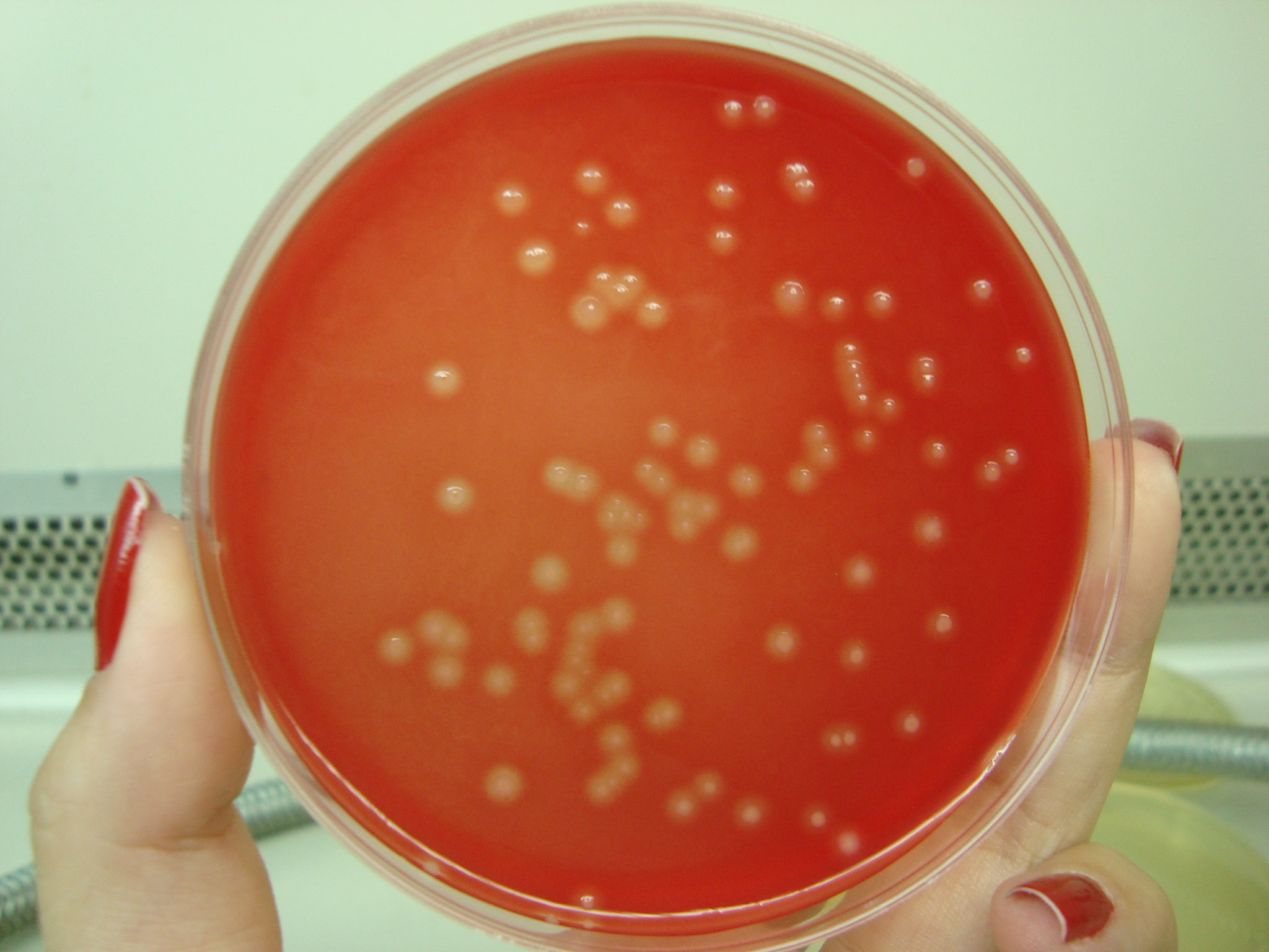 Streptococcus agalactiae